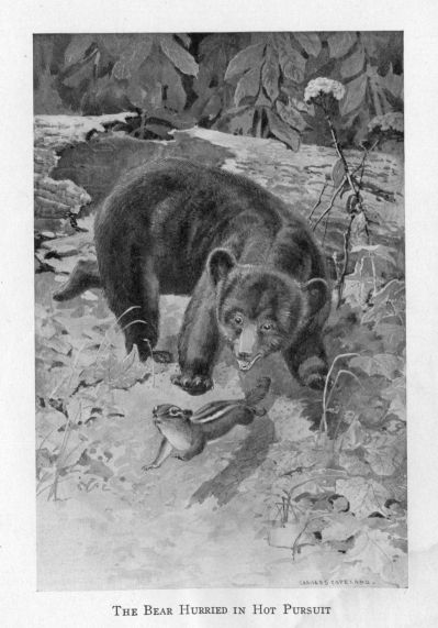 An illustration from Black Bruin, The Biography of a Bear at Project Gutenberg.